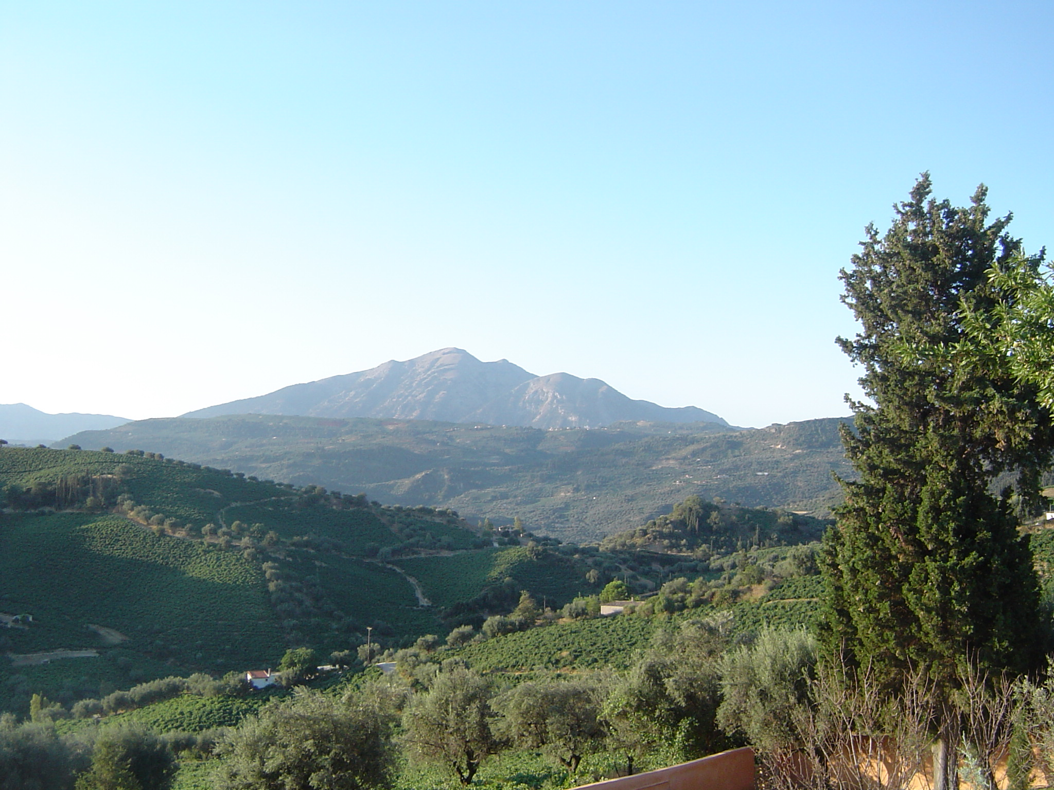 Klokos Mountina from West (Mertidi) Aigialeia, Peloponnes, Greece